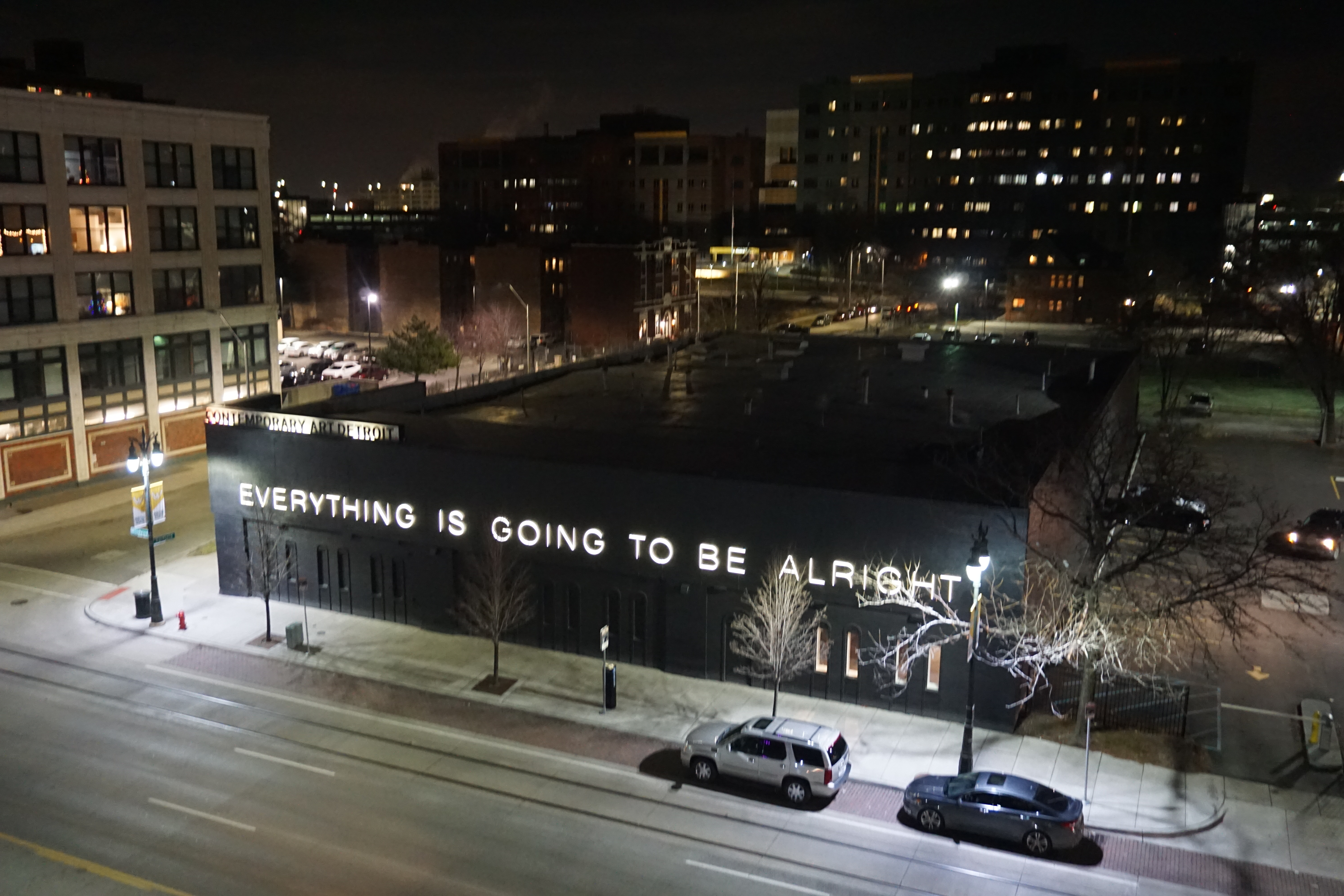 The Museum of Contemporary Art Detroit in Detroit, Michigan (United States).